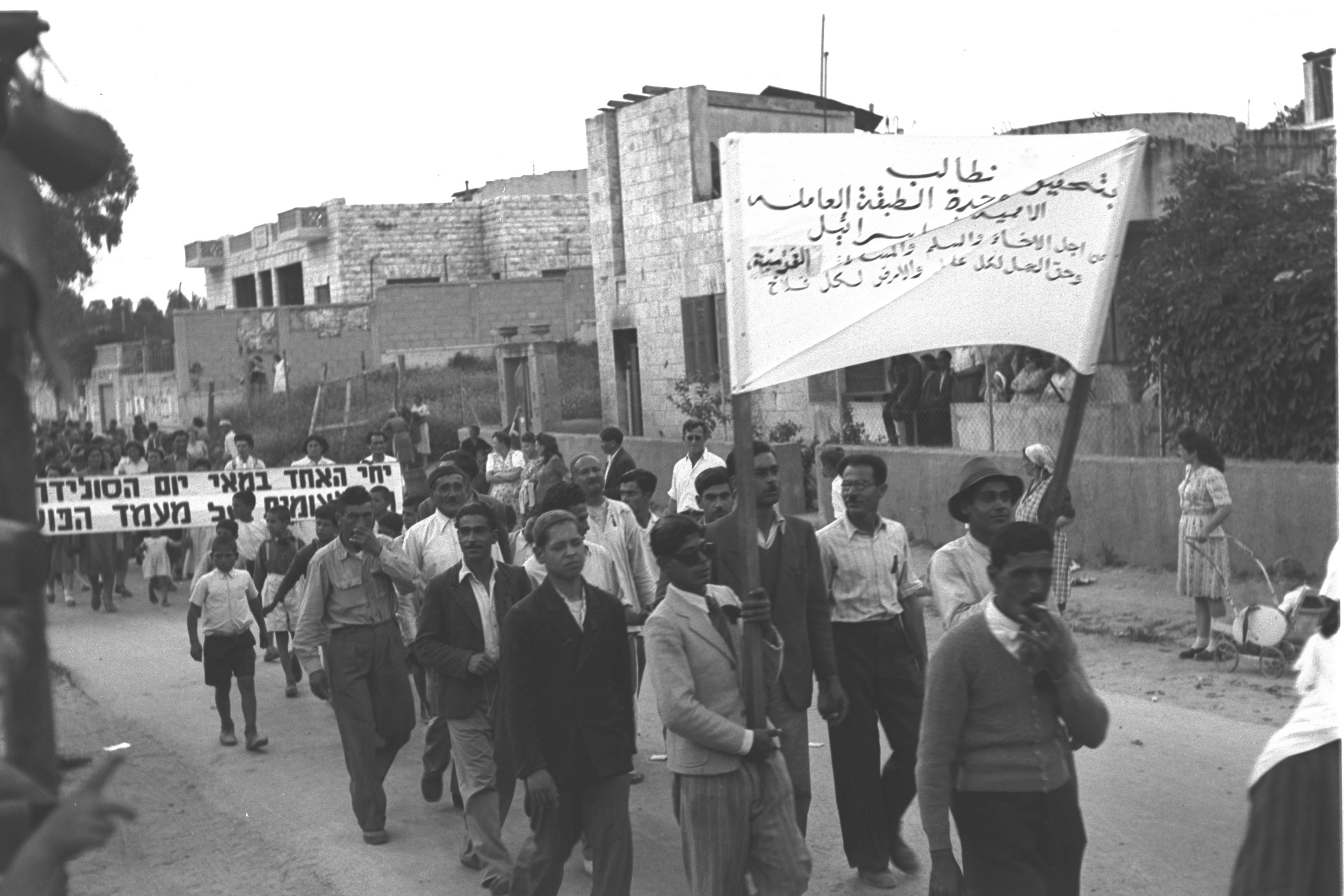 Jewish and Arab workers march in the May Day Parade in Ramla. פועלים יהודים וערבים משתתפים במצעד האחד במאי ברמלה. Photo: Zoltan Kluger (1896–1977) Alternative names Qlwger, Zwlṭan; Zolṭan Ḳluger; Kluger, Z.; W. von Szigethy; W. Von SzighethyDescriptionHungarian-Israeli photographerDate of birth/death 8 February 1896 16 May 1977Location of birth/death Kecskemét ManhattanAuthority control : Q7035699 VIAF: 19504001 ISNI: 0000 0000 6686 1613 ULAN: 500483392 LCCN: no2008144265 Open Library: OL6614008A WorldCat creator QS:P170,Q7035699 , 05/01/1949